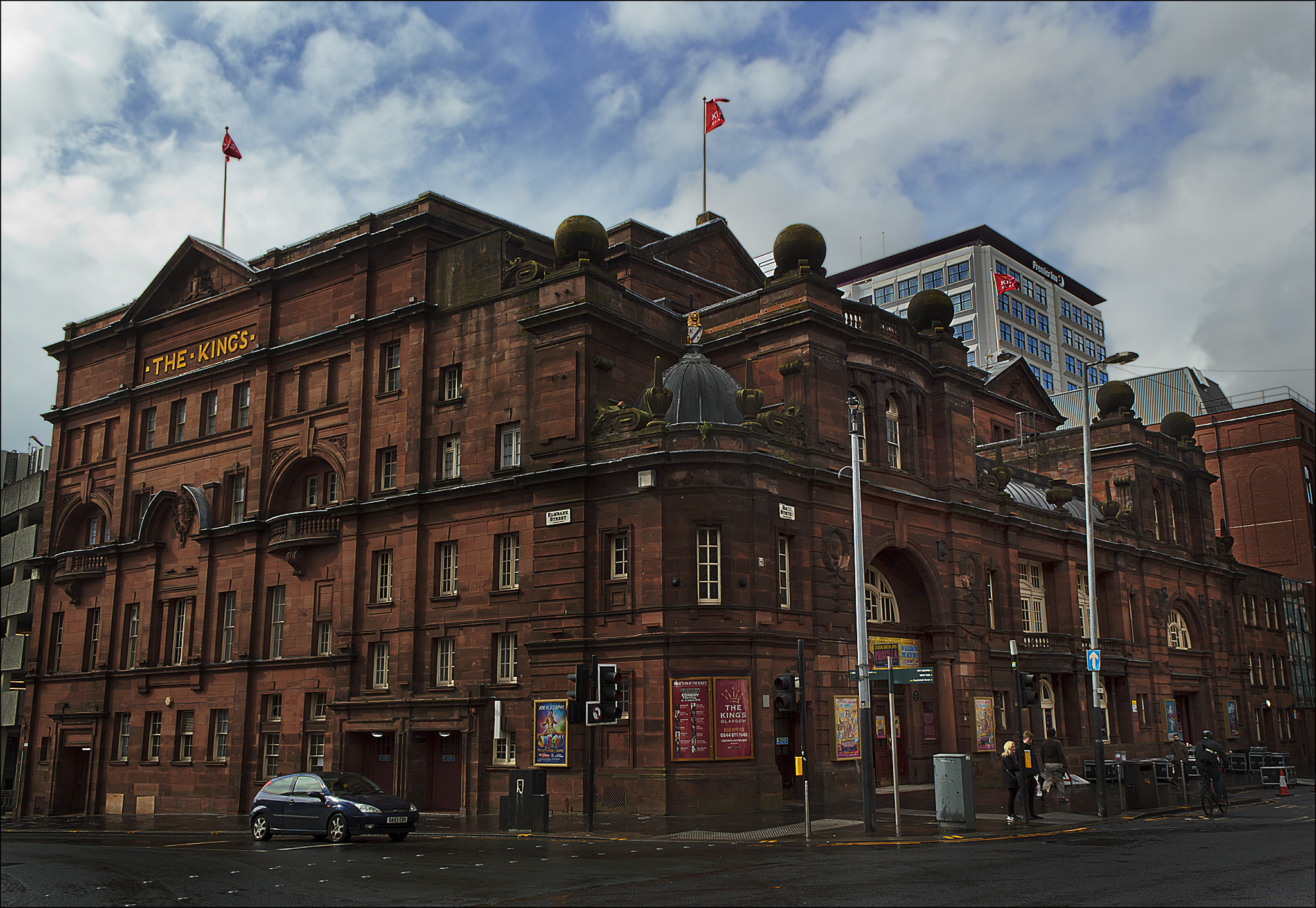 Bath Street, Glasgow